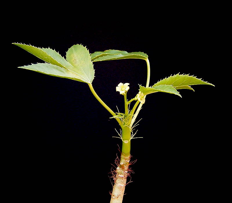 Jatropha glandulifera